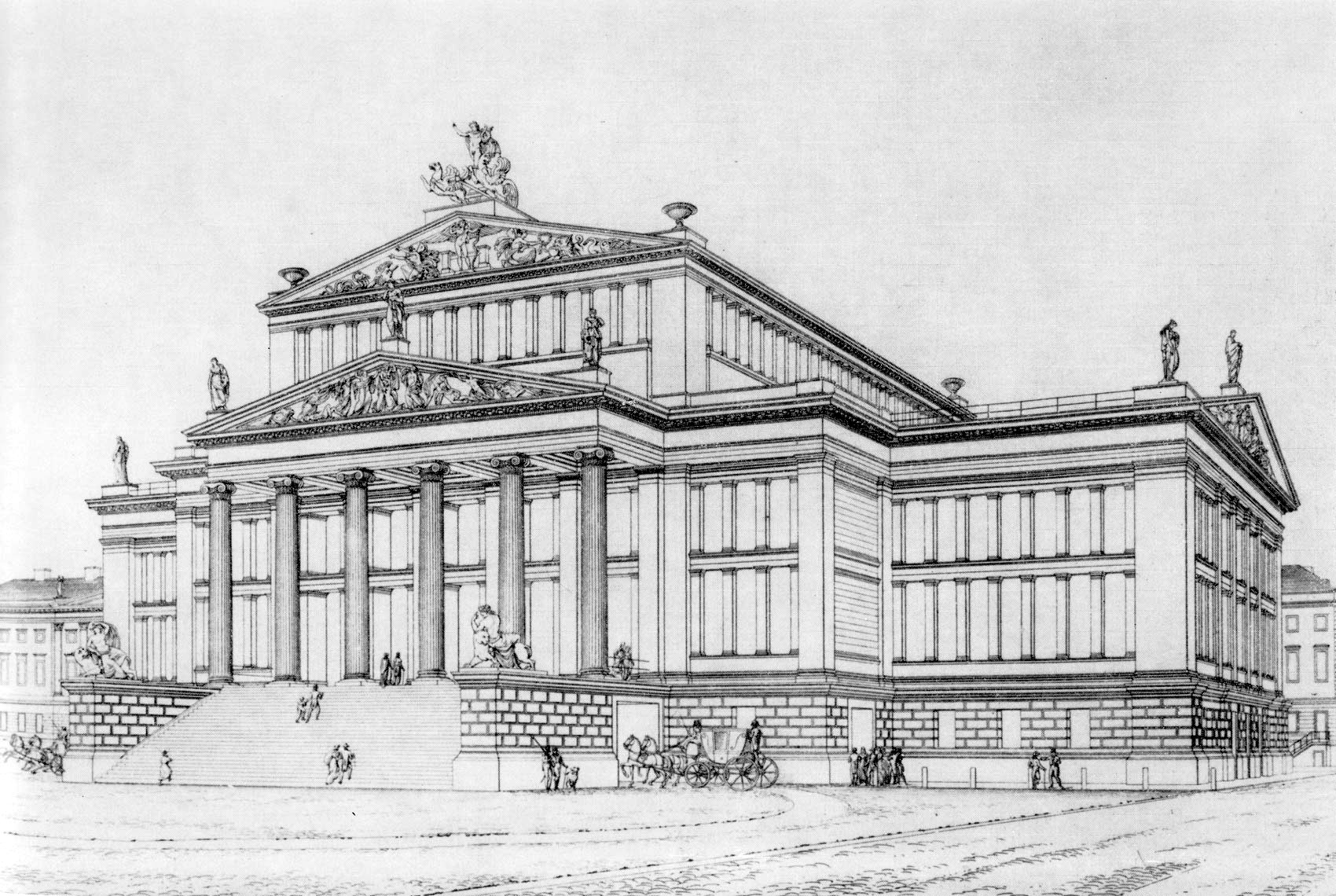 Karl Friedrich Schinkel: Schauspielhaus (drama theatre) in Berlin, Gendarmenmarkt Karl Friedrich Schinkel (1781–1841) Description German architect and painter Date of birth/death13 March 17819 October 1841Location of birth/deathNeuruppinBerlinAuthority control VIAF: 17298593 LCCN: n81068088 GND: 118607782 BnF: cb12352169q ULAN: 500028174 ISNI: 0000 0001 0855 5834 WorldCat WP-Person Copper engraving by L. M. N. Sohn after a drawing by Berger, ca. 1830